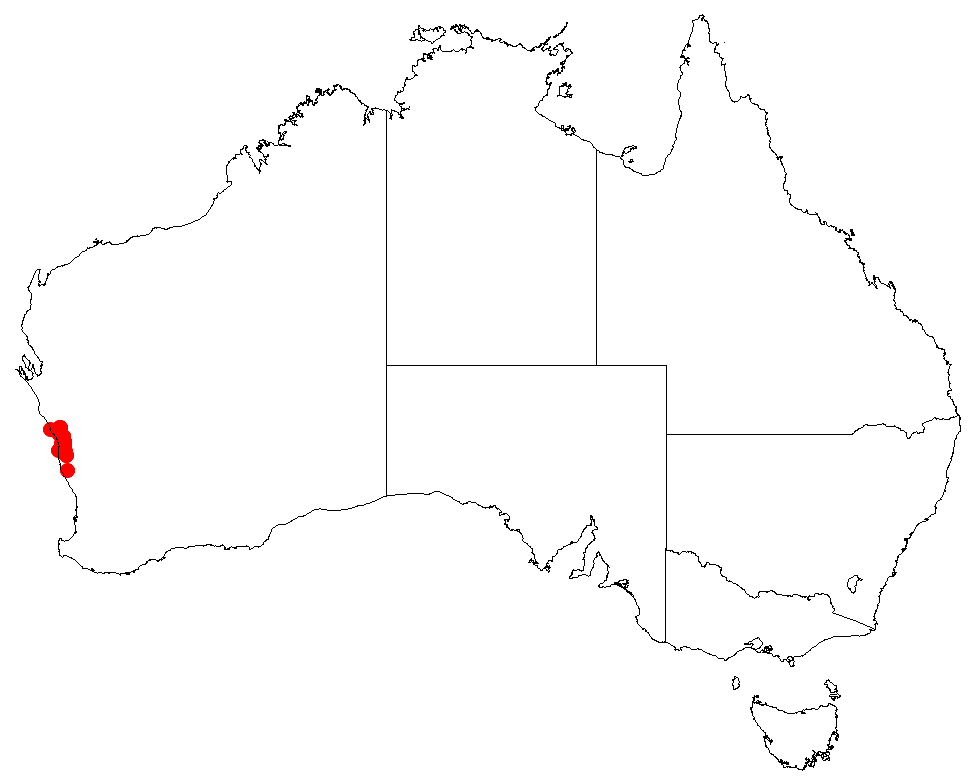 Hakea polyanthema Occurrence data downloaded from Australasian Virtual Herbarium on 22 November 2018 using